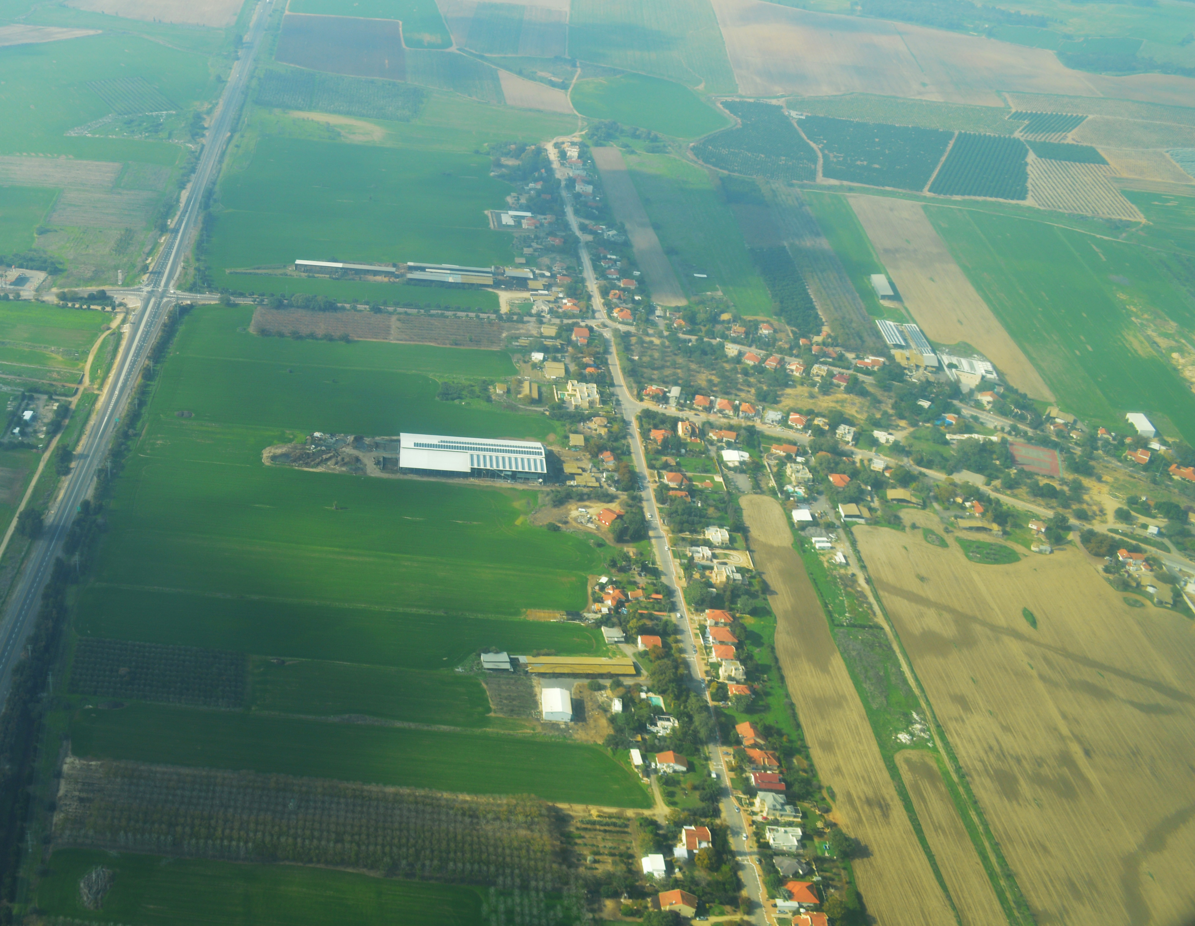 Nir Yisrael Aerial View